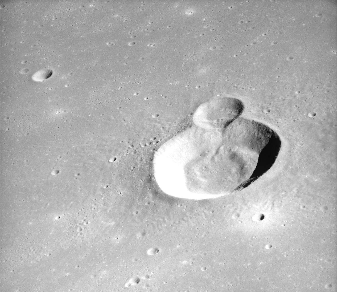 Oblique view of Heis, Oceanus Procellarum, facing approximately north, on the moon.